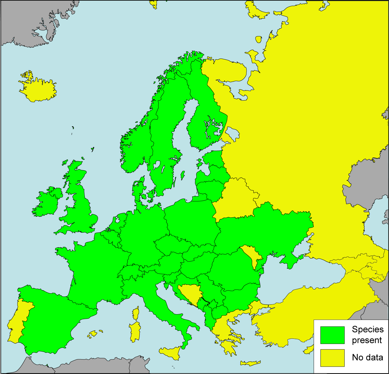 Aplexa hypnorum, pulmonate freshwater snail species: presence in European countries based upon data from: Aplexa hypnorum